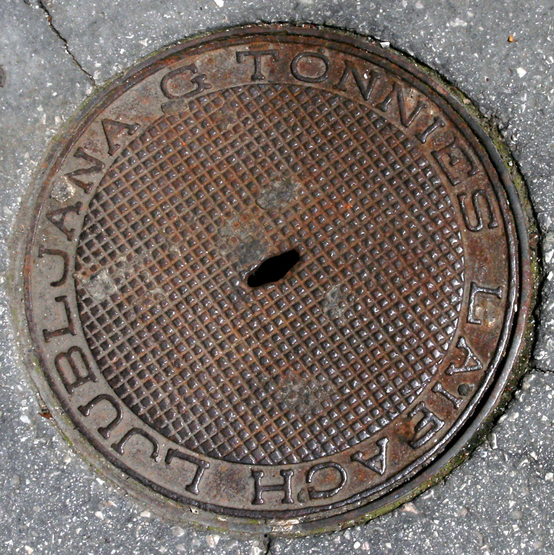 2013-05-28 in Ljubljana.